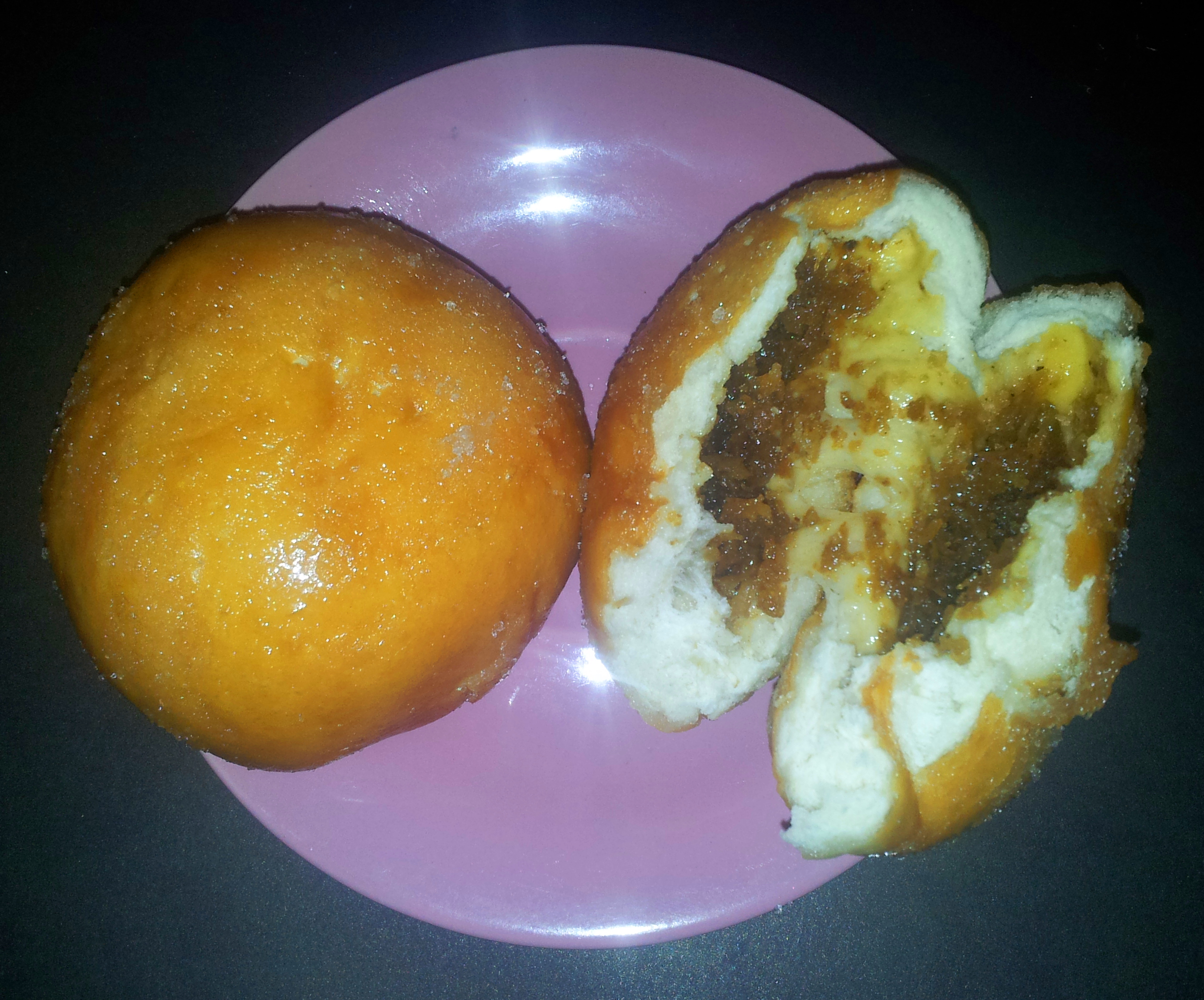 Butsi or Buchi variant from the Philippines, fried dough balls covered with white sugar, and filled with bukayo (coconut flesh strips simmered in sugar syrup)